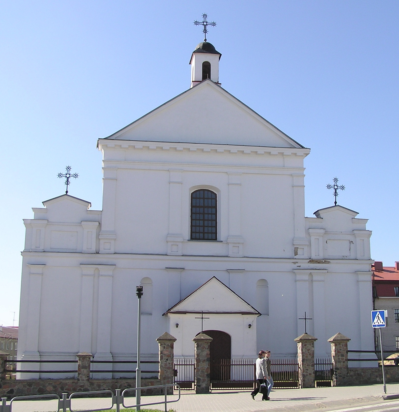 Catholic Church of St. Michael the Archangel in Navahradak